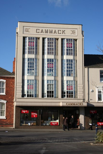 Cammack's Wide Bargate, Boston. Art Deco frontage of 1931-32 by Hedley Adams Mobbs